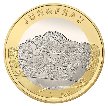 Swiss Commemorative Coin 2005 CHF 10 obverse